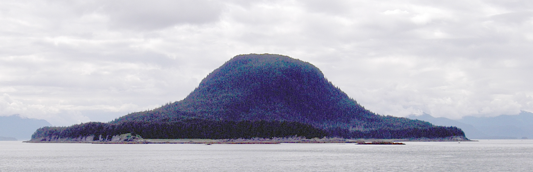 photo of Shelter Island, southeast Alaska, USA, viewed from the north